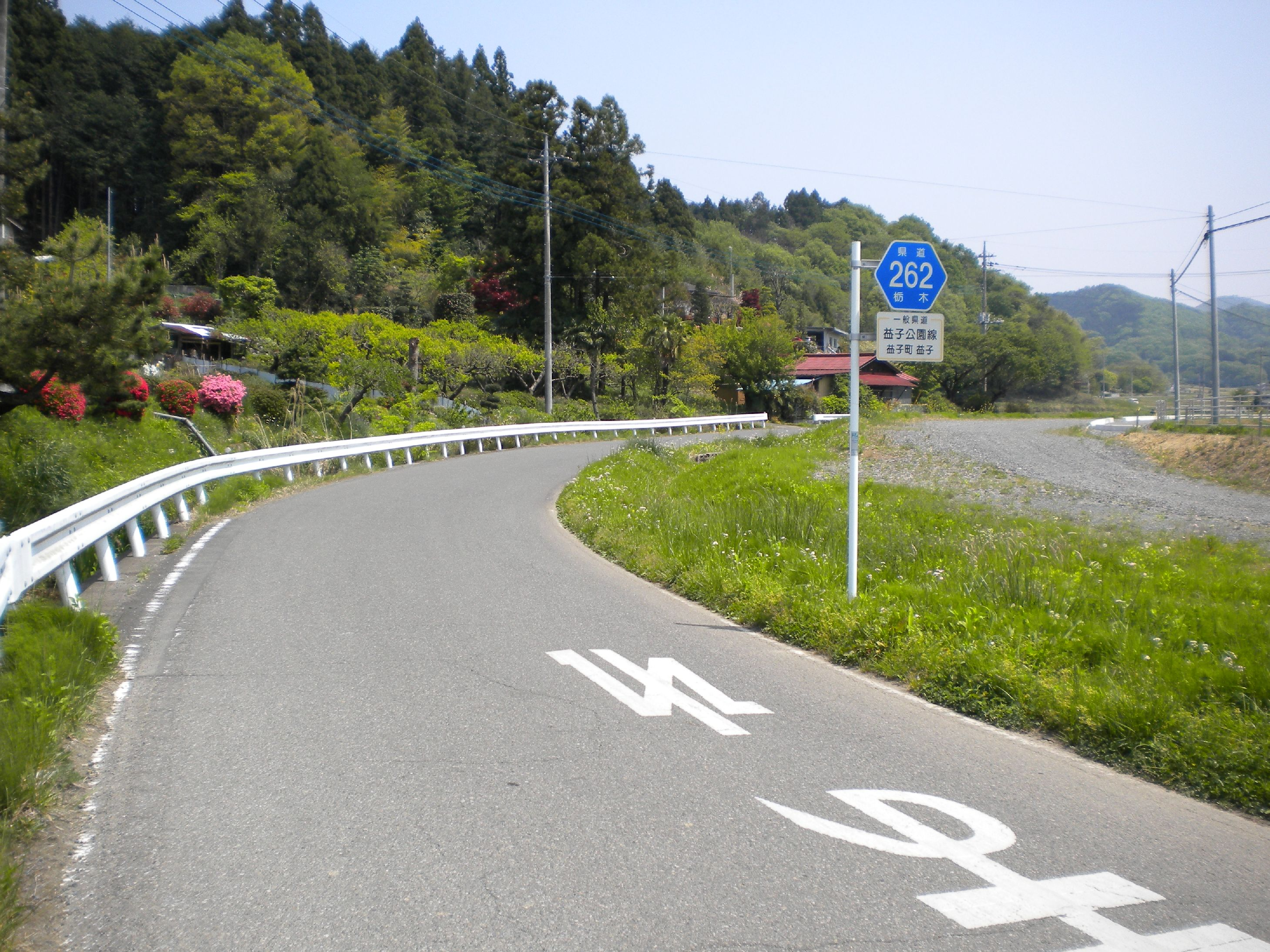 The Tochigi Prefectural Road Route 262 in Mashiko, Mashiko Town